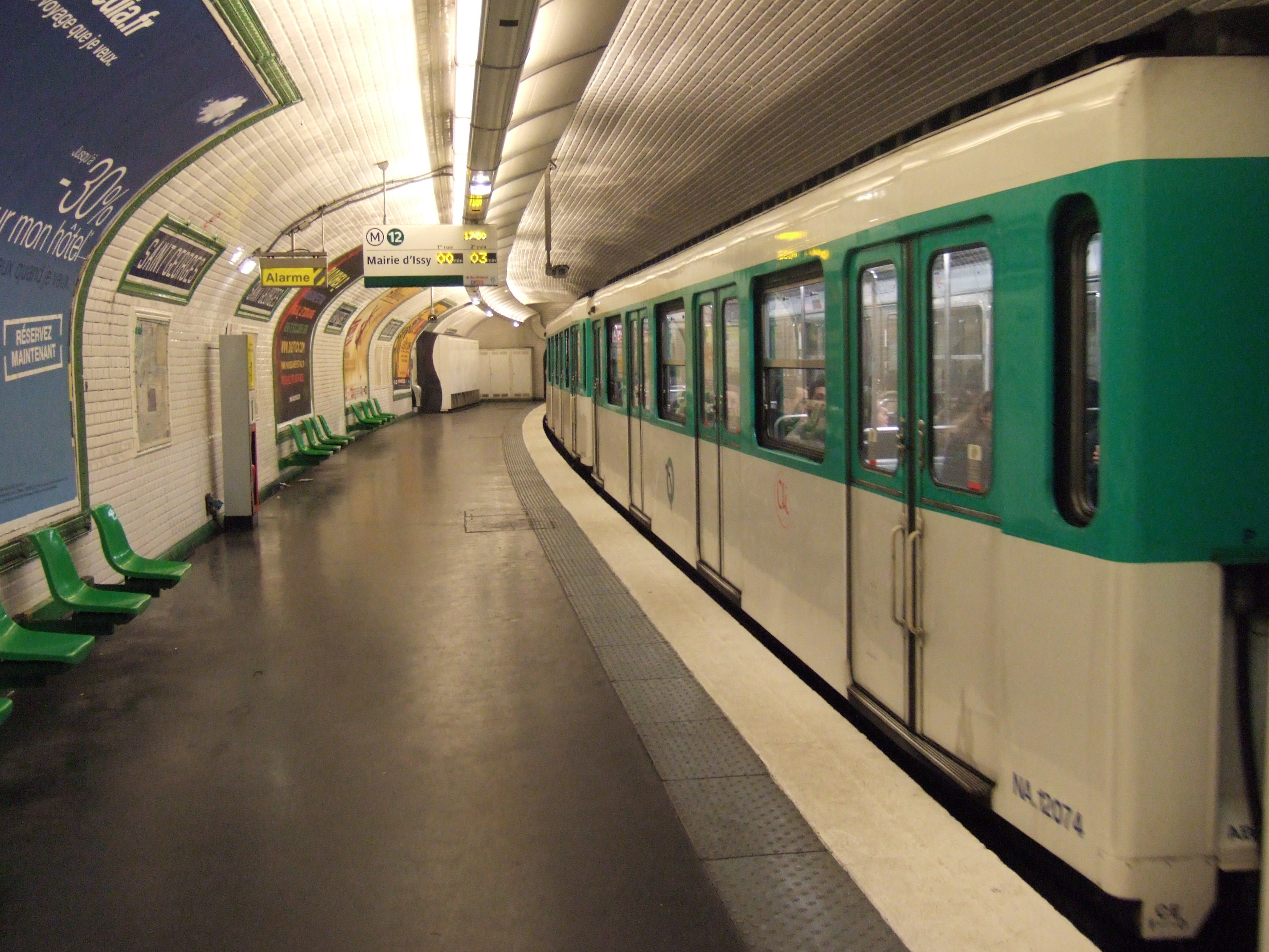 Saint-Georges, platform and train